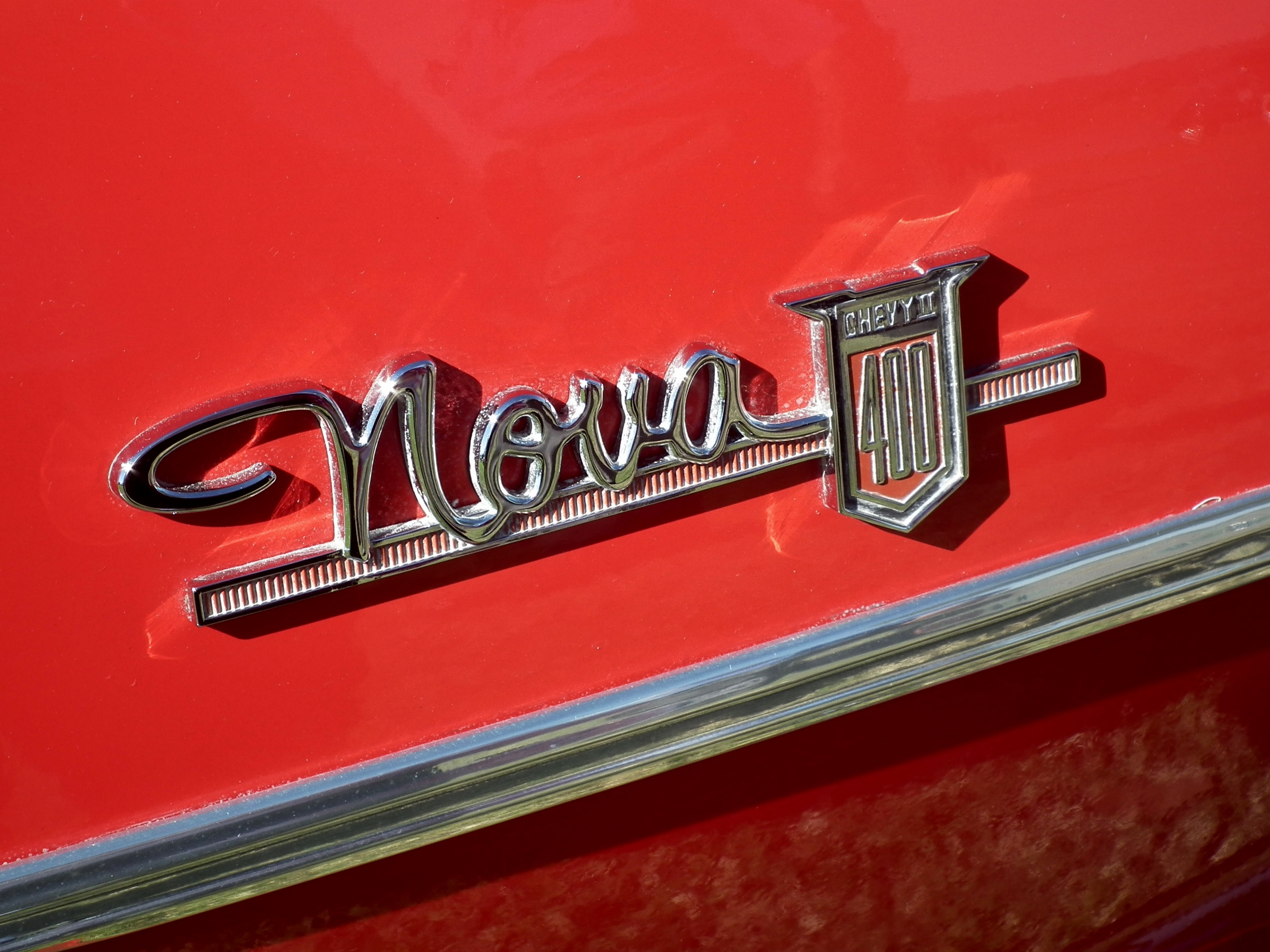 1962 Chevrolet Chevy II Nova 400 convertible rear quarter panel badge. Taken at the 2013 General Motors Display Day, held in the grounds of Penrith Panthers Club, Penrith NSW.